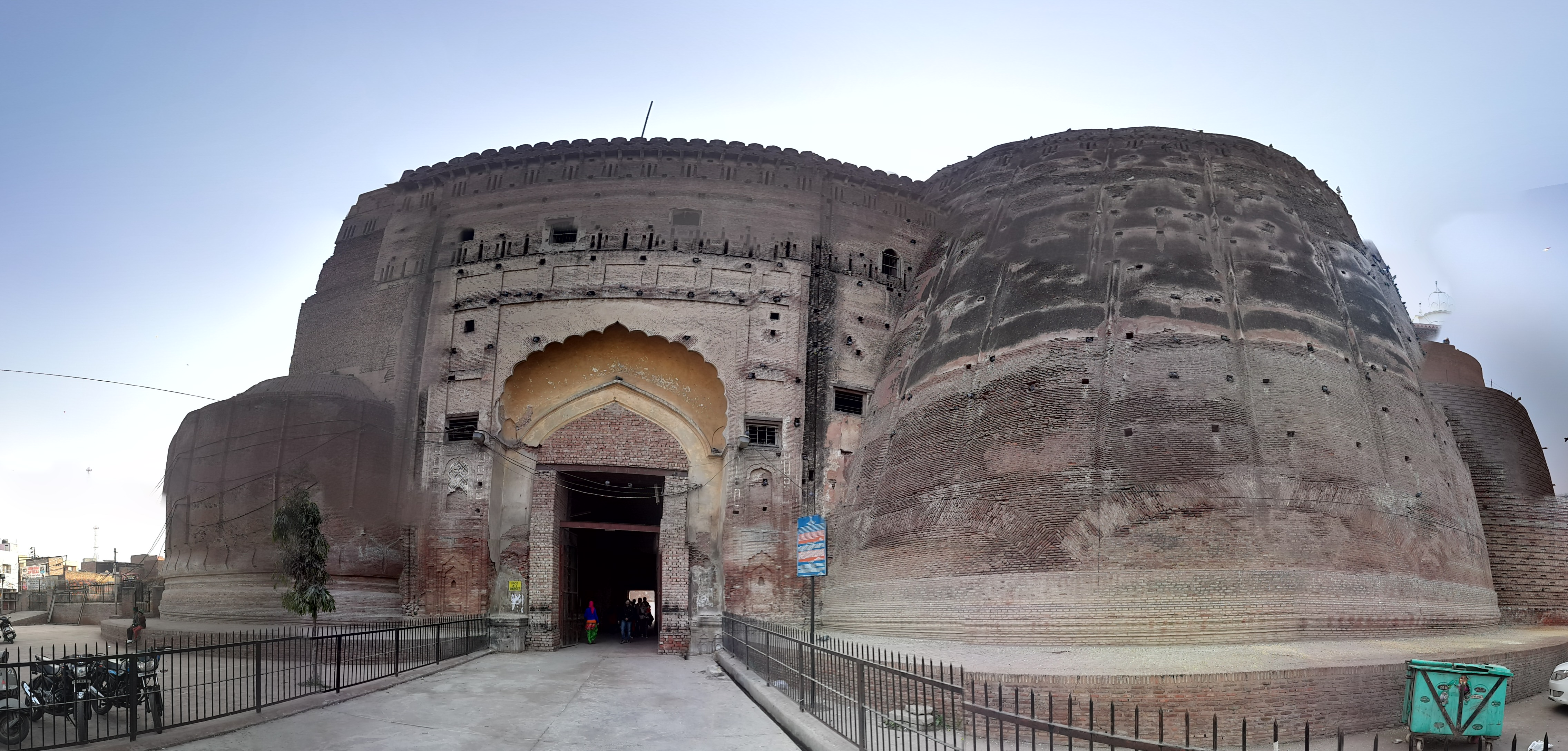 Entry gate Qila Mubarak ,Bathinda